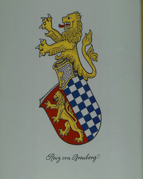 Breuberg coat of arms around 1180